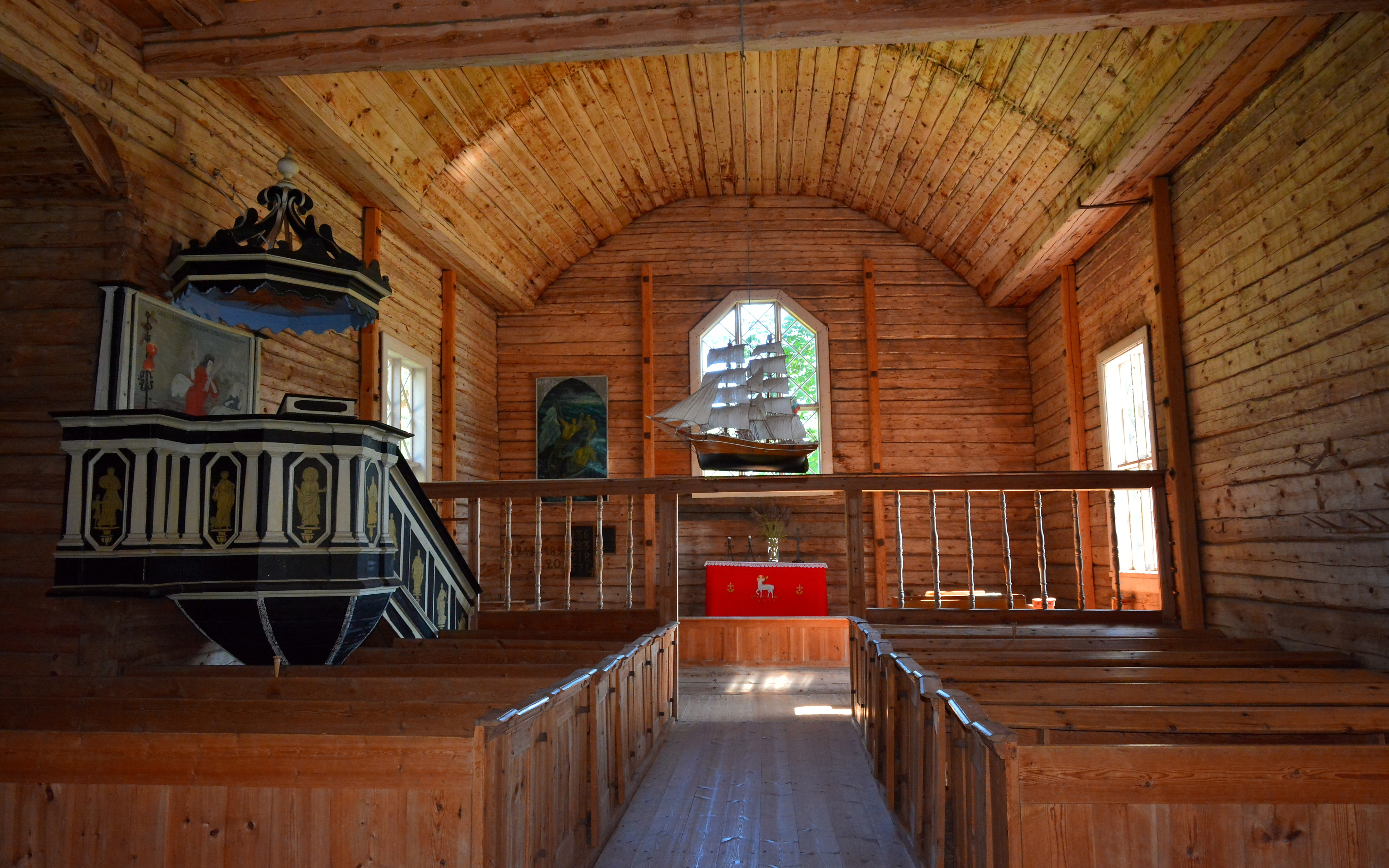 The church on Själö in Nagu, Finland.